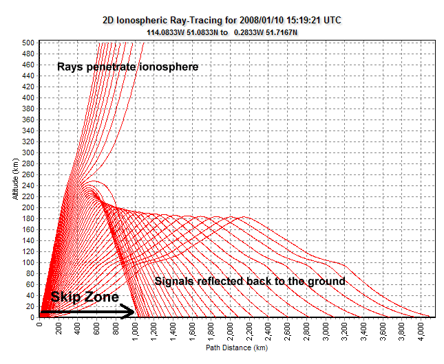 Signal ray-tracing using Proplab-Pro 3 showing the formation of a skip zone.